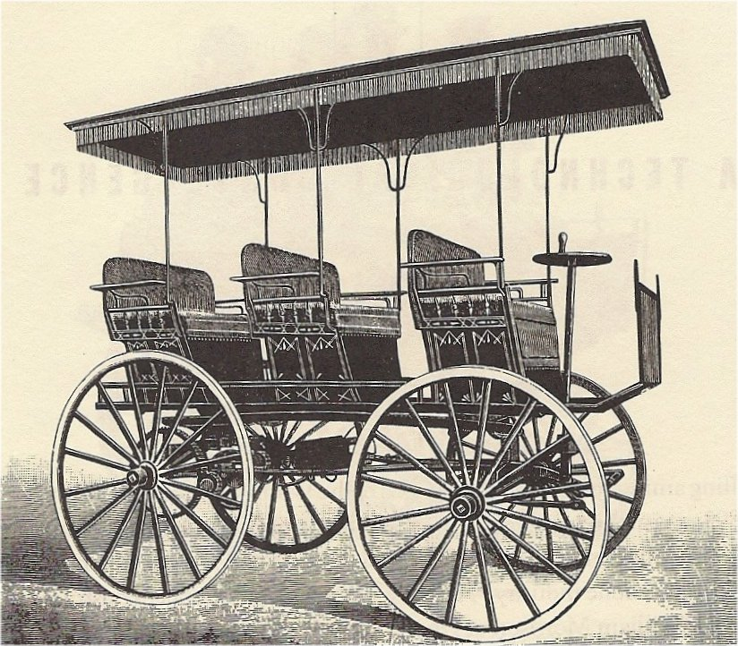 Morrison Electric horseless electric carriage built for J. B. MacDonald of American Battery Company